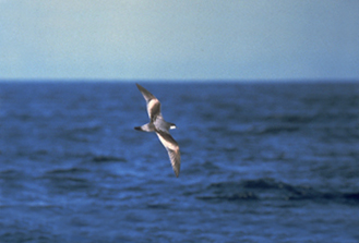 Puffinus bulleri' Buller's Shearwater.